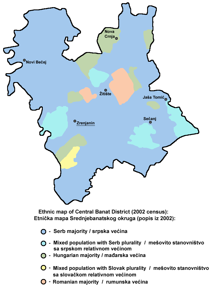 Ethnic map of Central Banat District - 2002 census (data by settlements).Serbian: Етничка мапа Средњебанатског округа - попис из 2002 (подаци по насељима).